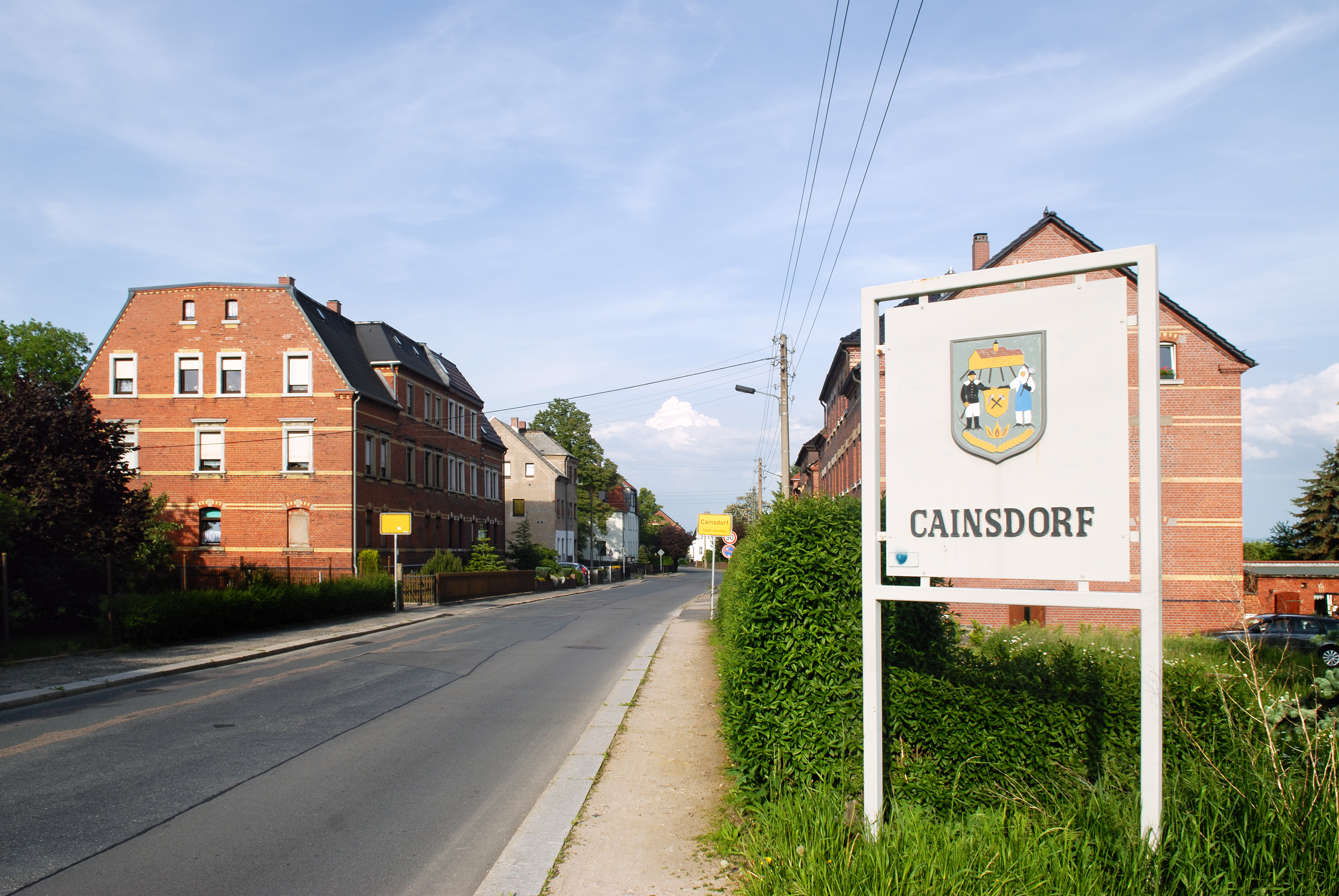 This image shows the town sign of Zwickau Cainsdorf.